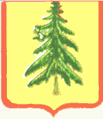 Coat of Arms of Pruzhany, Russian empire, 1845